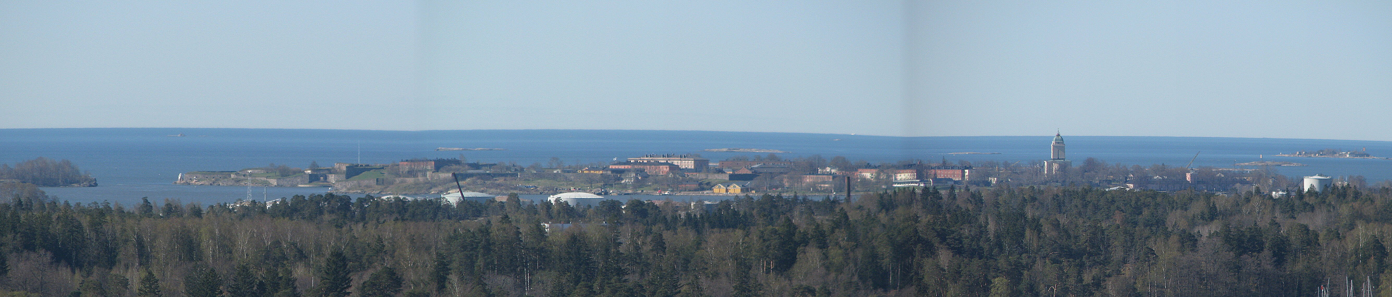 Suomenlinnan, Helsinki from Roihuvuori water tower